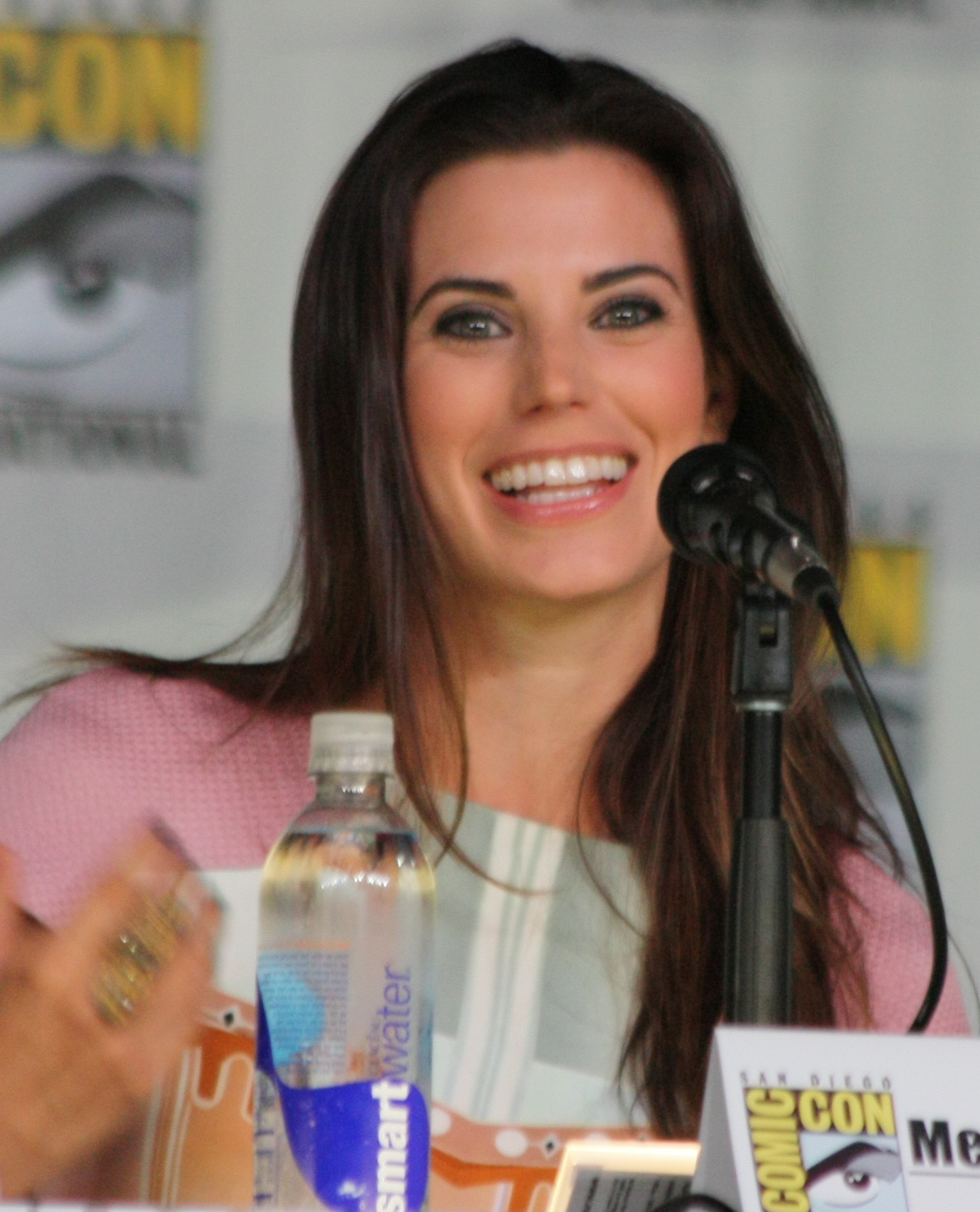 Meghan Ory (Riley)